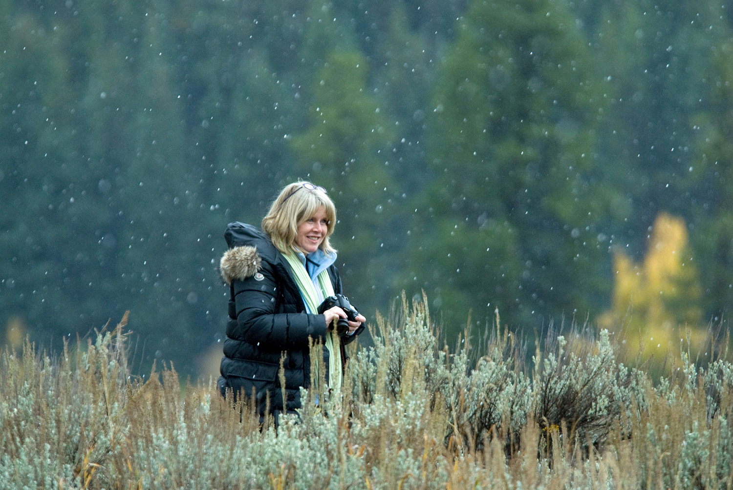 Tipper Gore with camera in the snow in Wyoming in October 2007